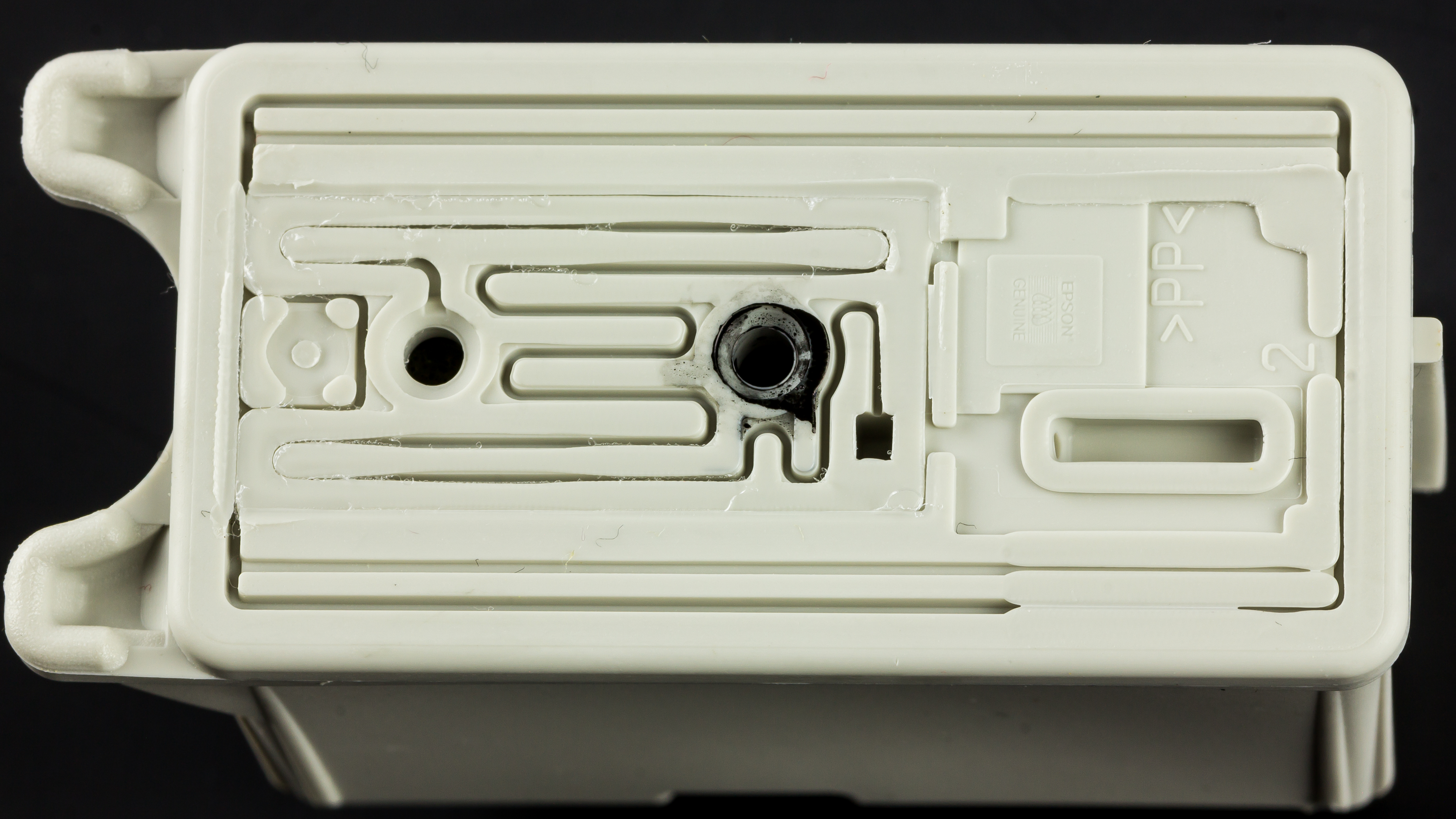 Epson ink-jet cartridge T019 black - top label removed: Small channels in form of a labyrinth for the pressurization